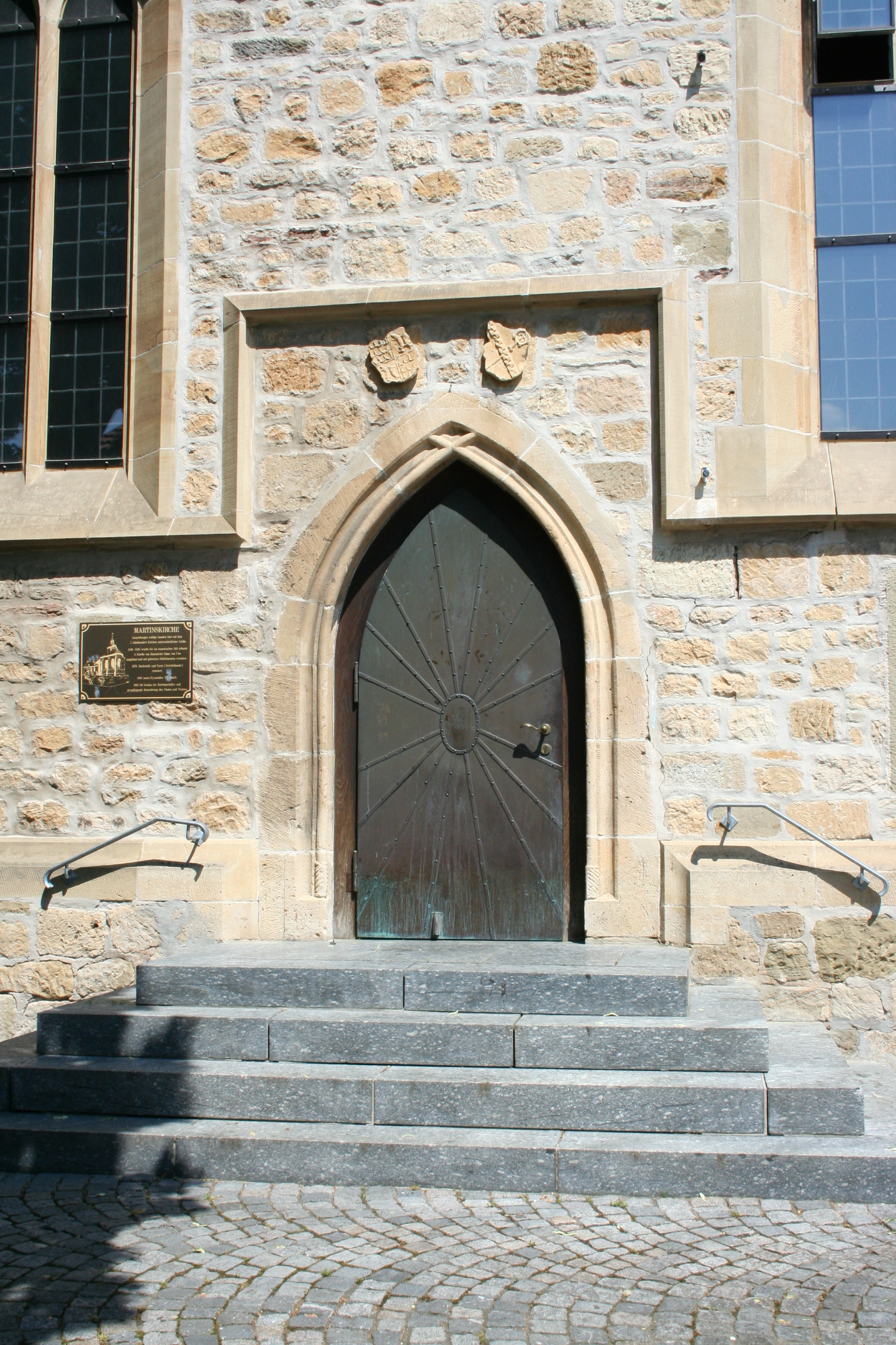 Protestant church St. Martin at Kornwestheim, administrative district Ludwigsburg, Baden-Wurttemberg, Germany. Registered in the monument list of the government presidium of Stuttgart (2005).